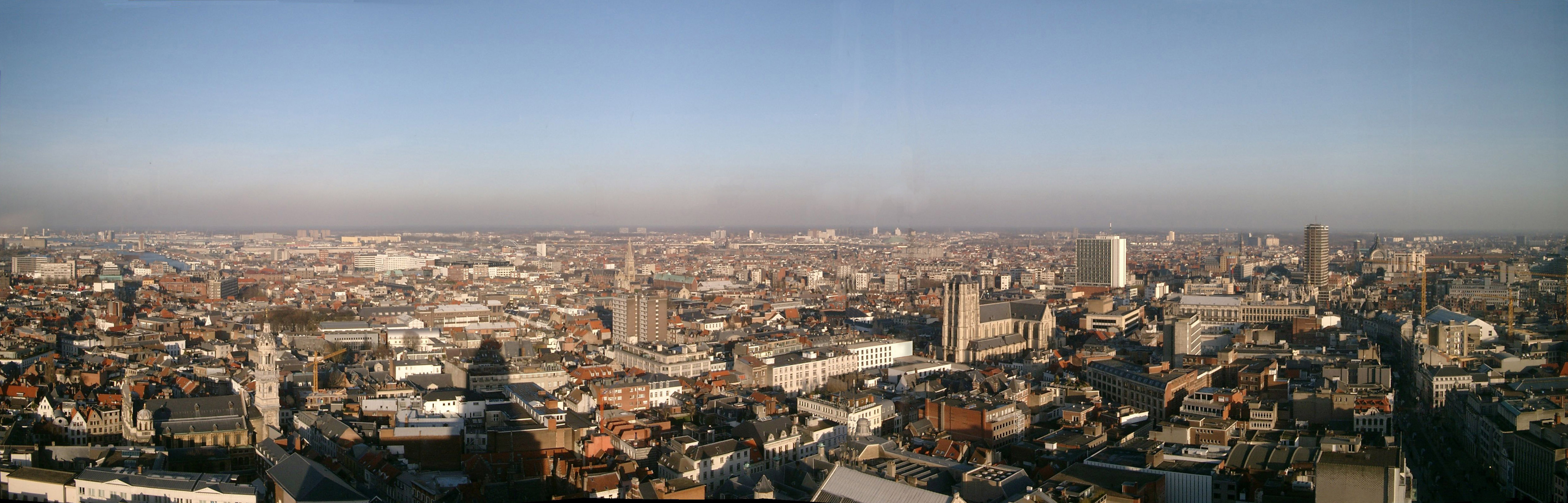 View from "de Boerentoren" in Antwerp, Belgium on december 10th, 2006 (stitched together)